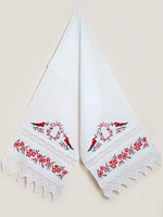 rushnik